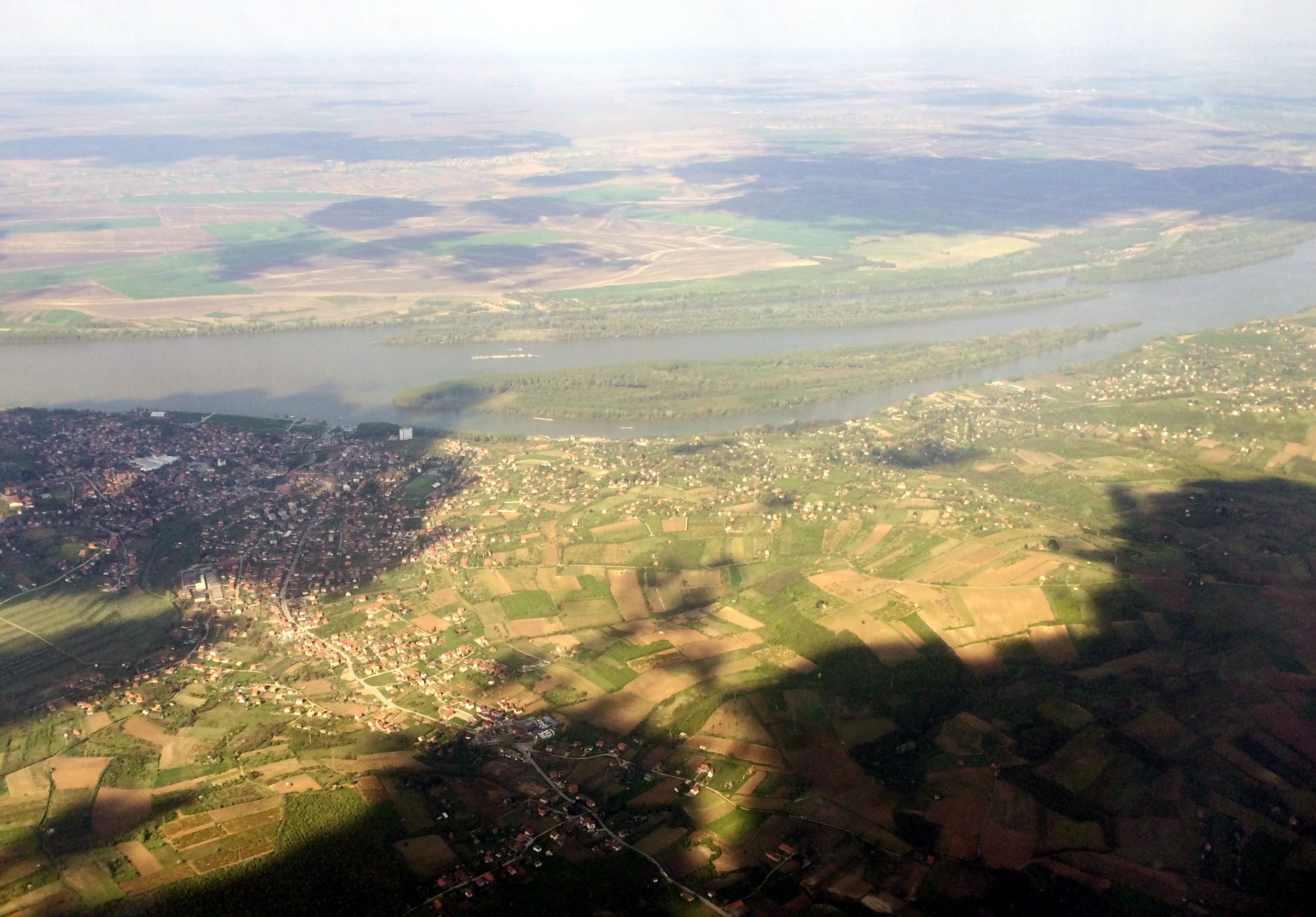 Aerial view over Donau with settlement Grocanska Ada, and island Grocka, in the municipality of Grocka, east of Beograd (Serbia)